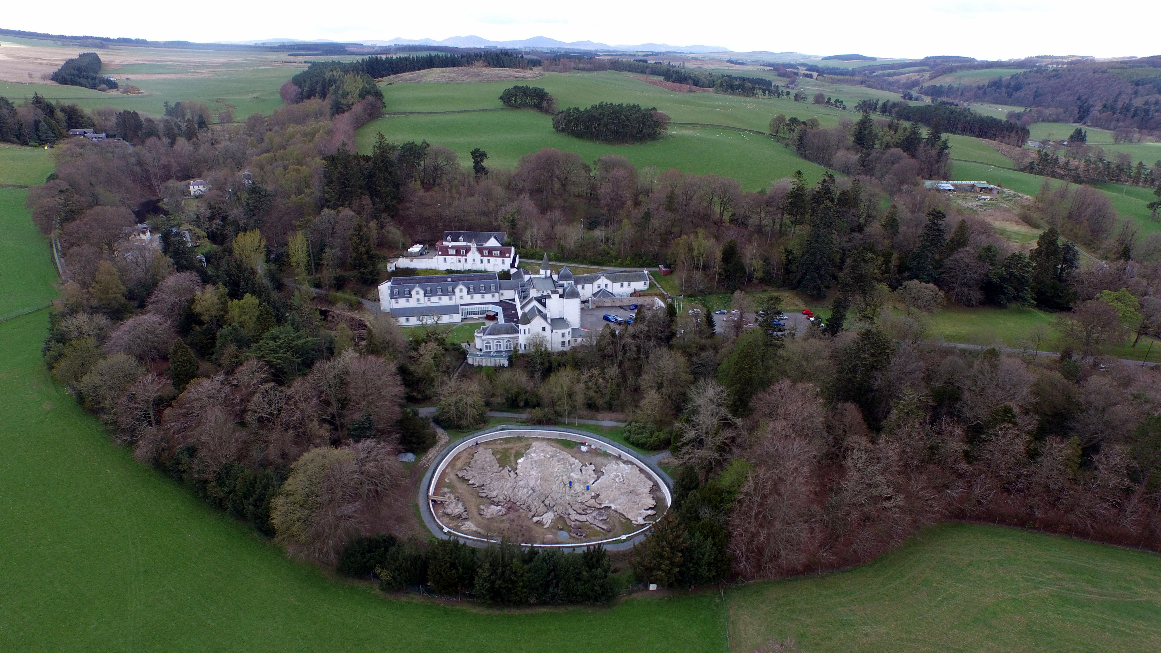 A large scale topographical map of Scotland at Barony Castle, Eddleston near Peebles.